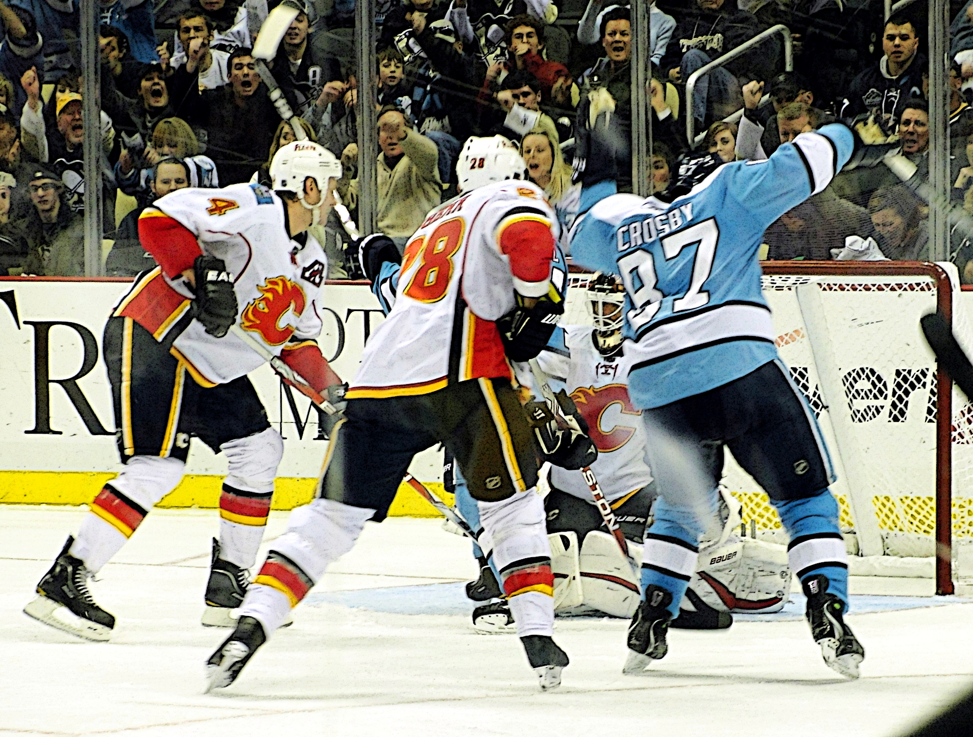 Pittsburgh Penguins center Sidney Crosby scored three times, including his 200th NHL goal on this third period tally, against the Calgary Flames November 27, 2010 at Consol Energy Center in Pittsburgh, PA.